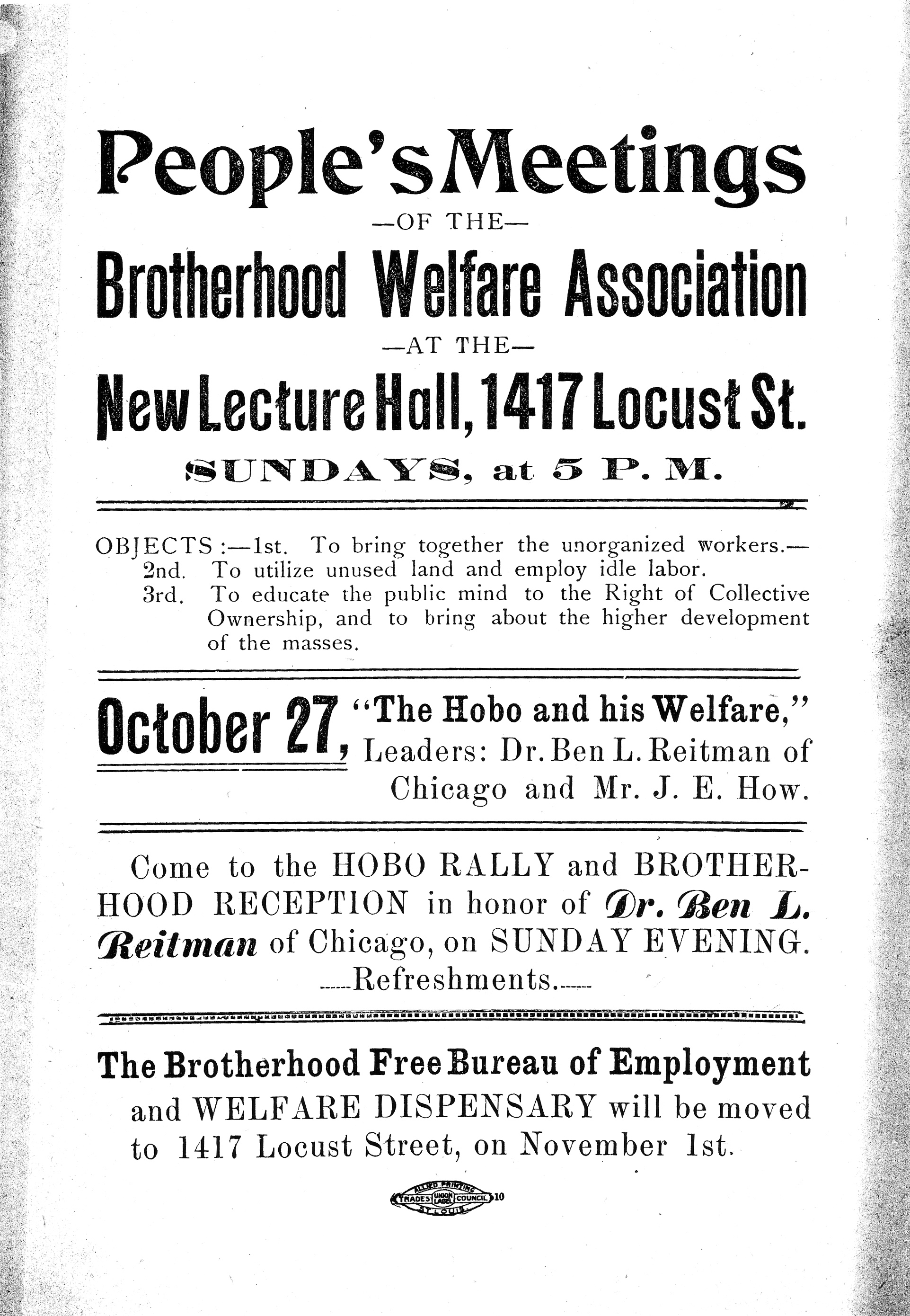 A poster by the International Brotherhood Welfare Association advertising a meeting with Ben Reitman and James Eads How. October 27 was a Sunday in 1912, 1918 and 1929, but '29 is unlikely as How was loving in Los Angeles then.